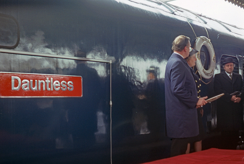 BR class 50 50048 Dauntless naming ceremony at Reading General, 23 February 1978. Numbering history: D448, 50 048 Scanned from a Fujichrome 35mm slide.